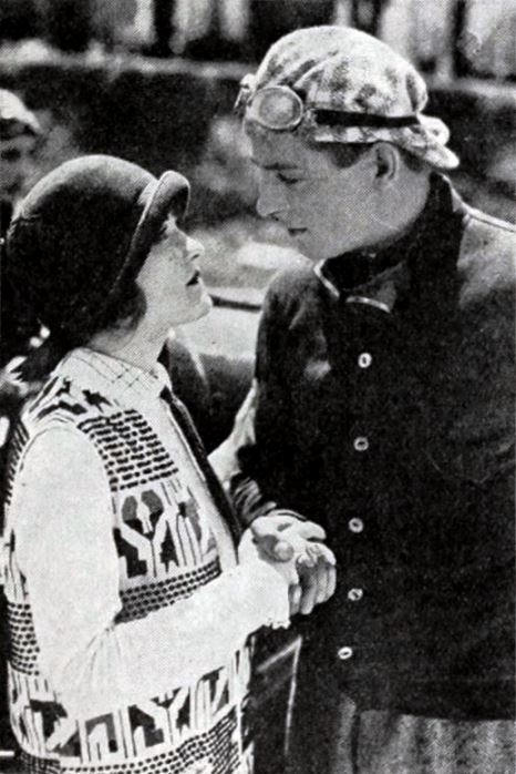 Still from the American comedy film Sporting Youth (1924) with Laura La Plante and Reginald Denny, on page 11 of the October 20, 1923 Universal Weekly. The still was captioned using the film's working title The Spice of Life.